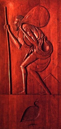 Onile - sculpture of Carybé in wood, exibit in the Museum Afro-Brazilian, Salvador, Bahia, Brasil